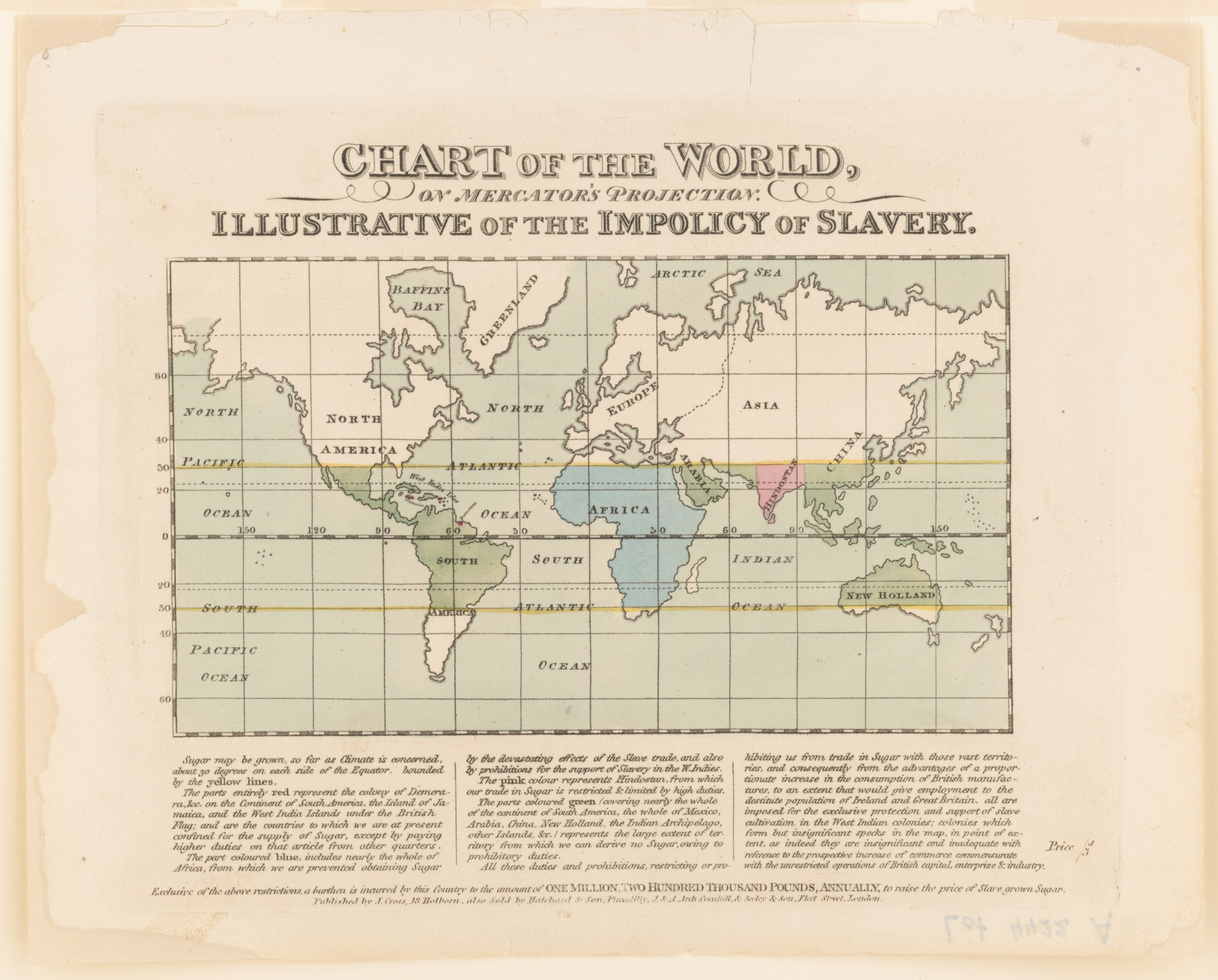 Title: Chart of the world, on Mercator's projection. Illustrative of the impolicy of slavery Abstract/medium: 1 print : color.